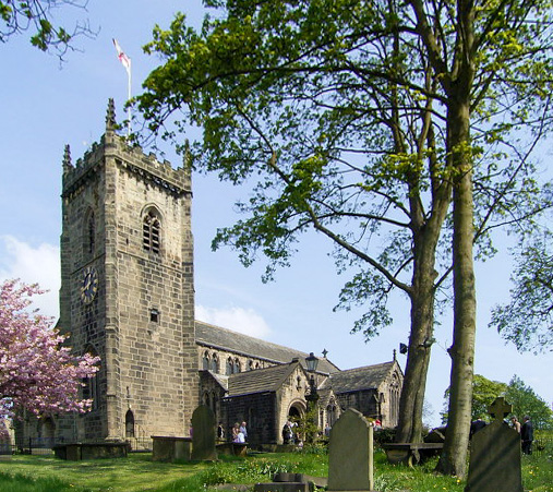 St Oswald Guiseley. Details of church on an earlier image.